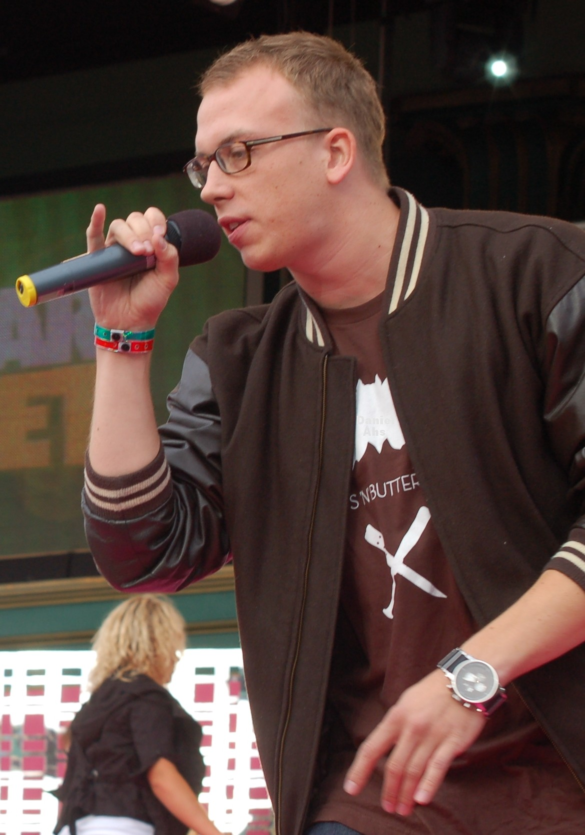 Filthy (Magnus Lidehäll) at Gröna Lund, Sommarkrysset.